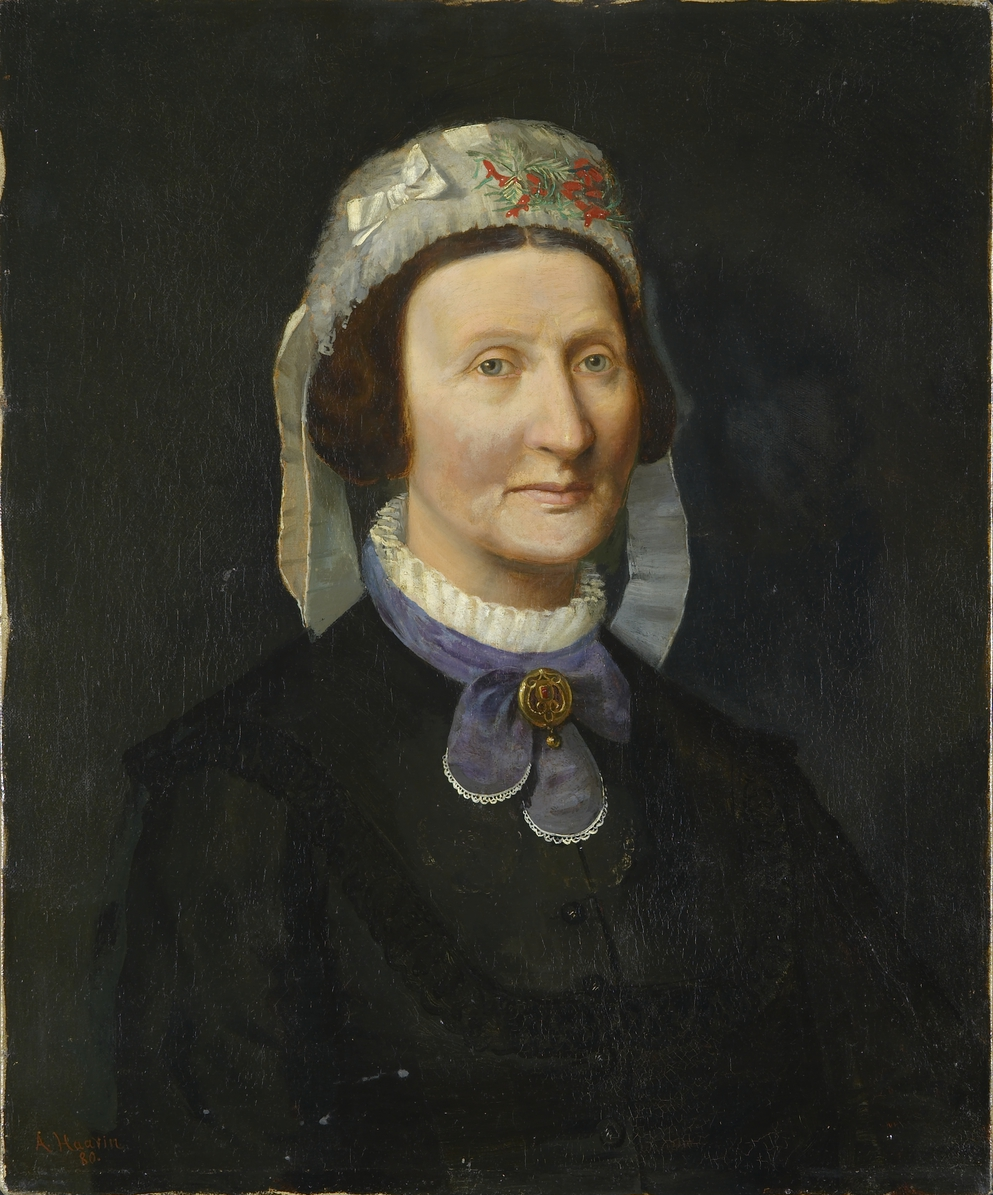 Norwegian Maren Dorothea Tønsberg (1813–93), nee Bødtker, married 1835 to Norwegian bookseller Christian Tønsberg